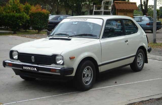 The first generation of Honda Civic